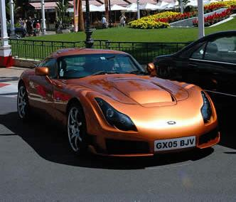 This is a cropped version of Image:TVR Sagaris in Monte Carlo.jpg